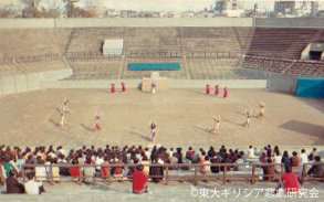 Greek Tragedy 1968 Tokyo University Greek Tragedy Institute-c